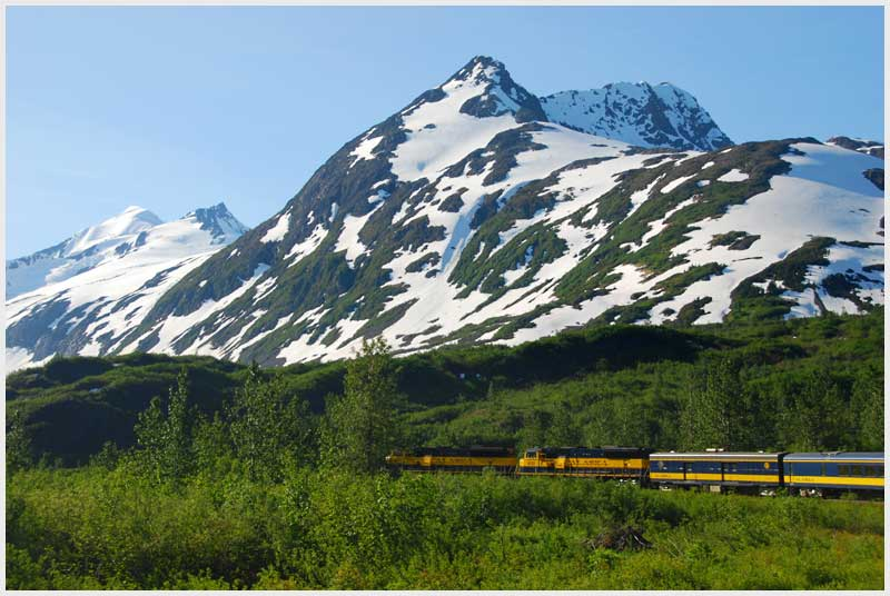 Train to Seward